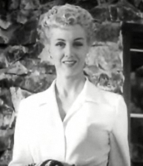 Cropped screenshot of Jan Sterling from the trailer for the film Split Second.